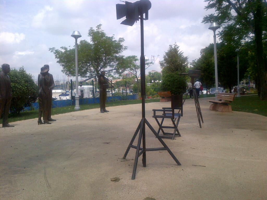 Monument to Turkish cinema in Fenerbahche, Istanbul